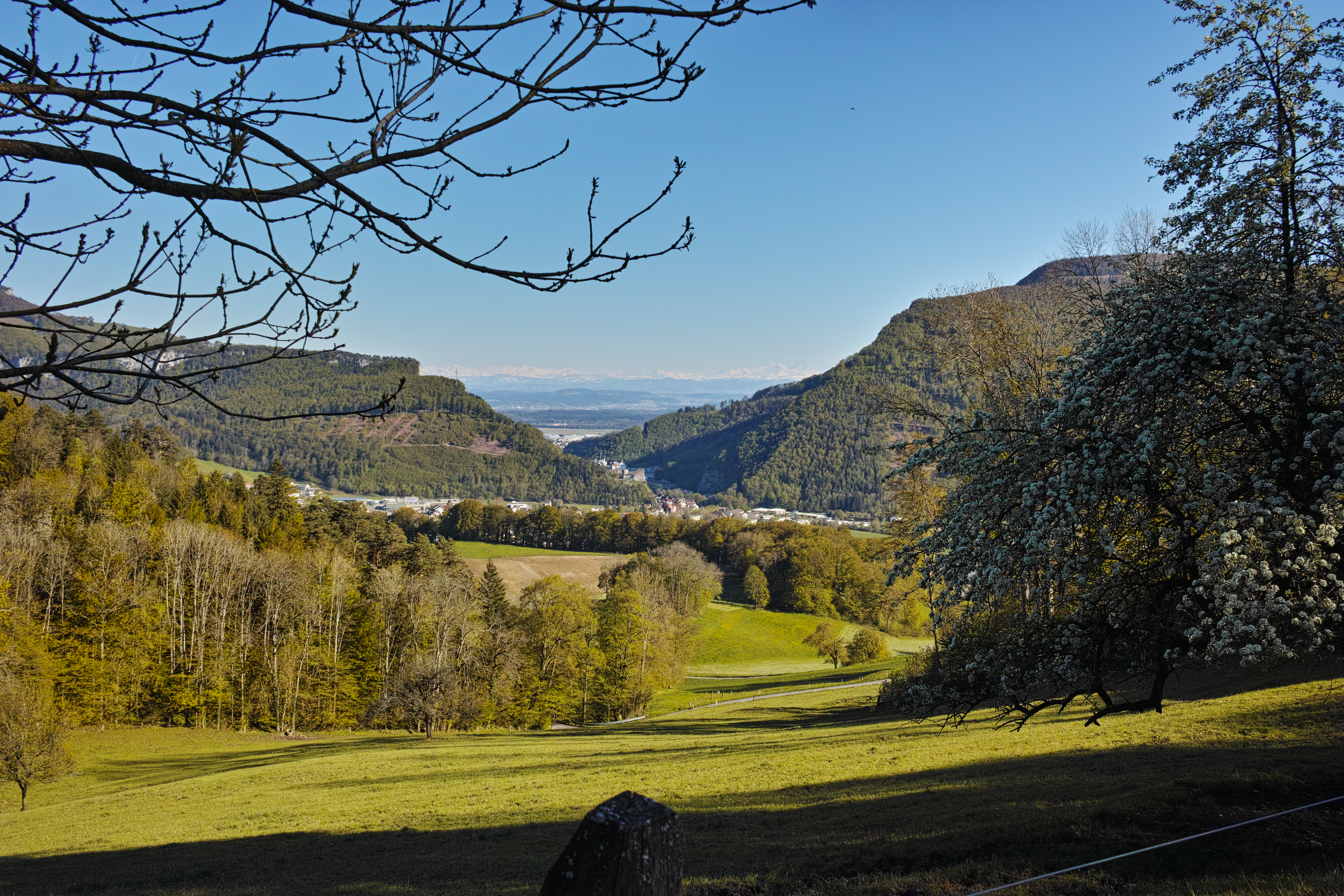 Naturpark Thal: View from the hamlet of Höngen in the municipality of Laupersdorf towards the town of Klus (municipality of Balsthal) with Alt-Falkenstein castle. In the background: The Alps.